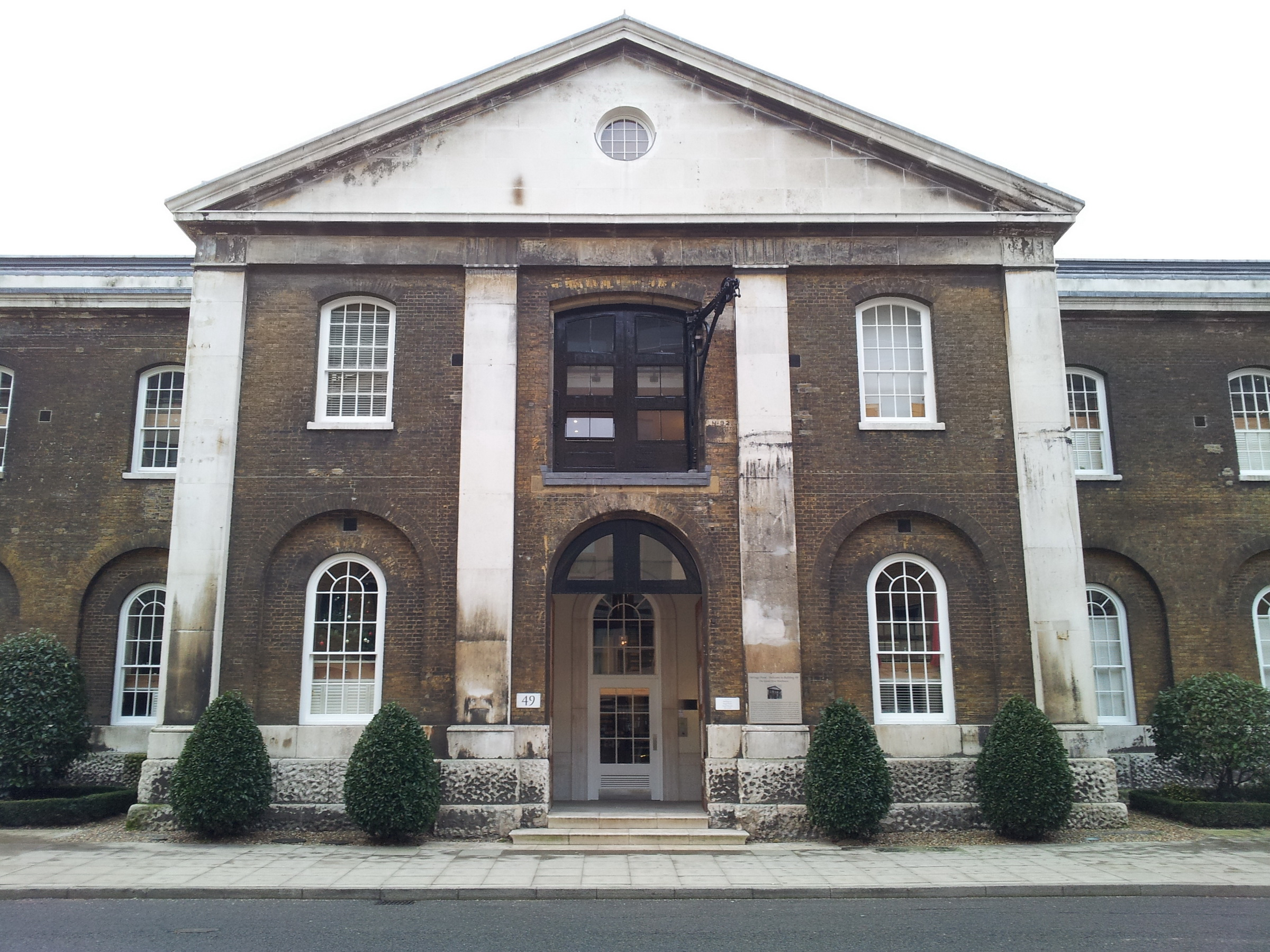 View from Argyll Road of Building 49 in Royal Arsenal, Woolwich, South East London.